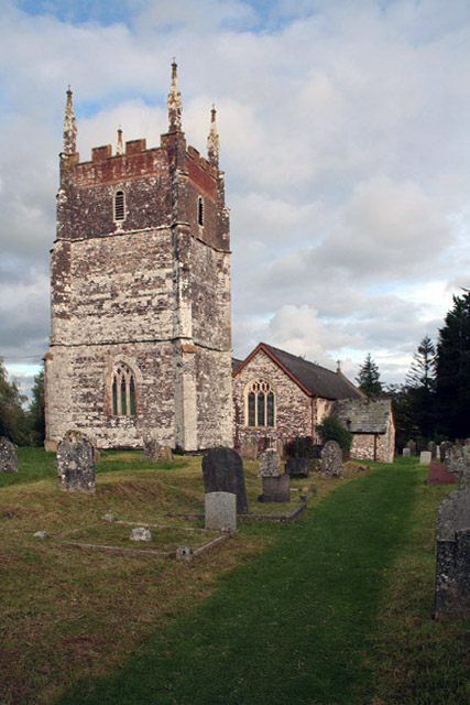 Holy Cross parish church, Cruwys Morchard, Devon, England, seen from west-southwest. The ground and second stages of the tower are 14th- or 15th-century. The tower had a spire but it was struck by lightning in 1689, causing a fire that melted the bells. Afterward the parish chose to rebuild the bell stage in local brick.